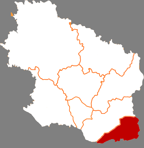 Location of Zhengning county in Qingyang city, China